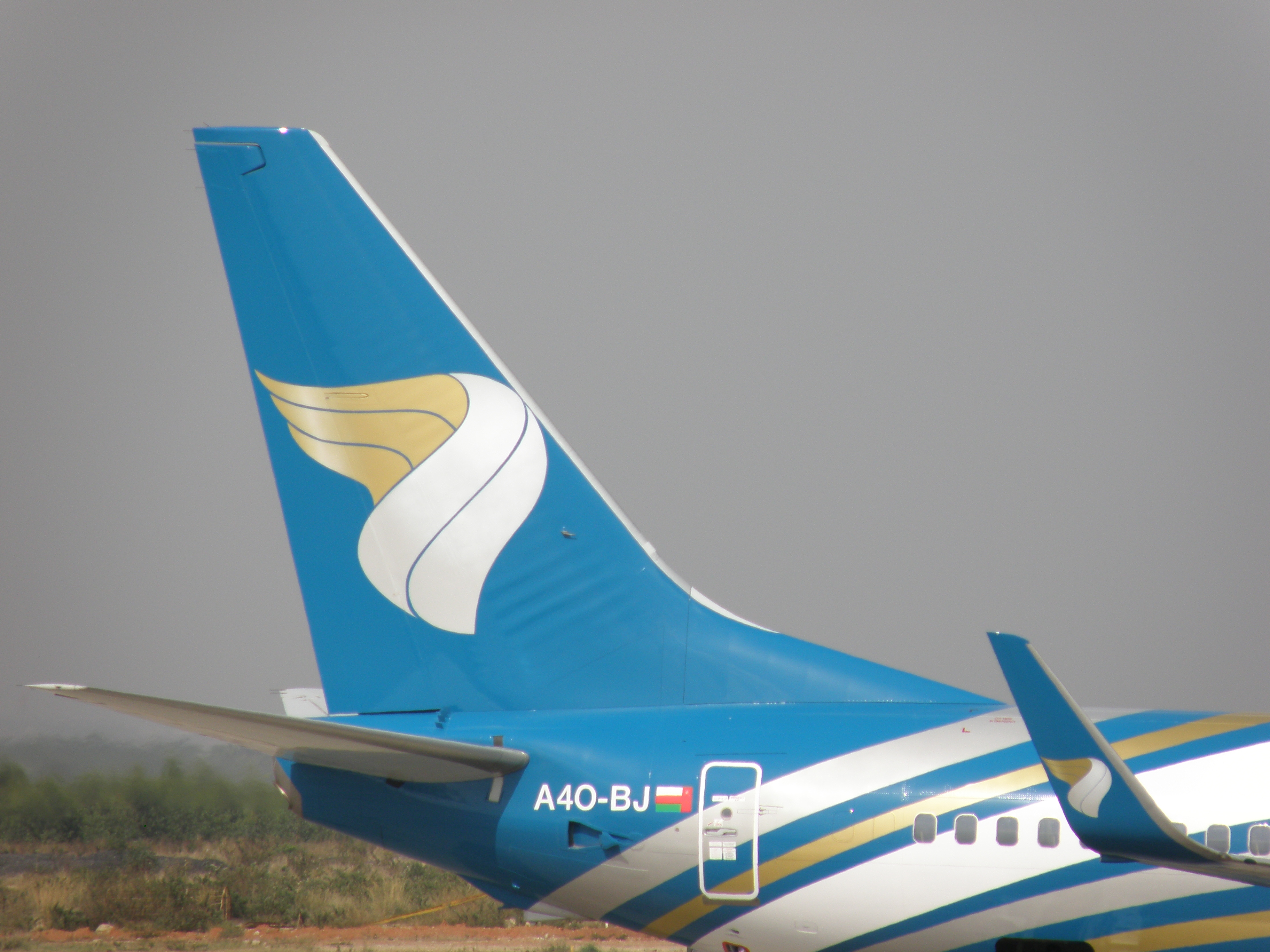 Tail of Oman Air aircraft at Bengaluru International Airport